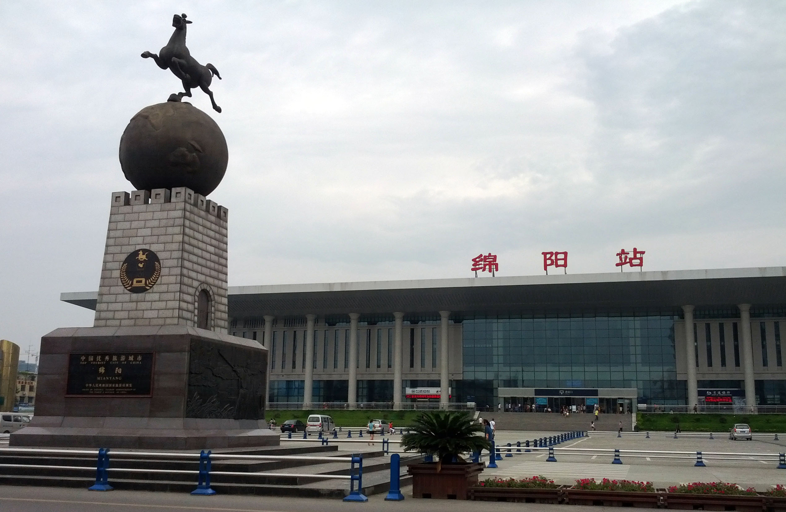 Looking north at the main train station in Mianyang, southwest China. +AutoLevels in Adobe Photoshop Elements 6.0